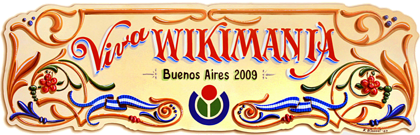 proposed logo with typical drawing art for Wikimania 2009 - Buenos Aires bid